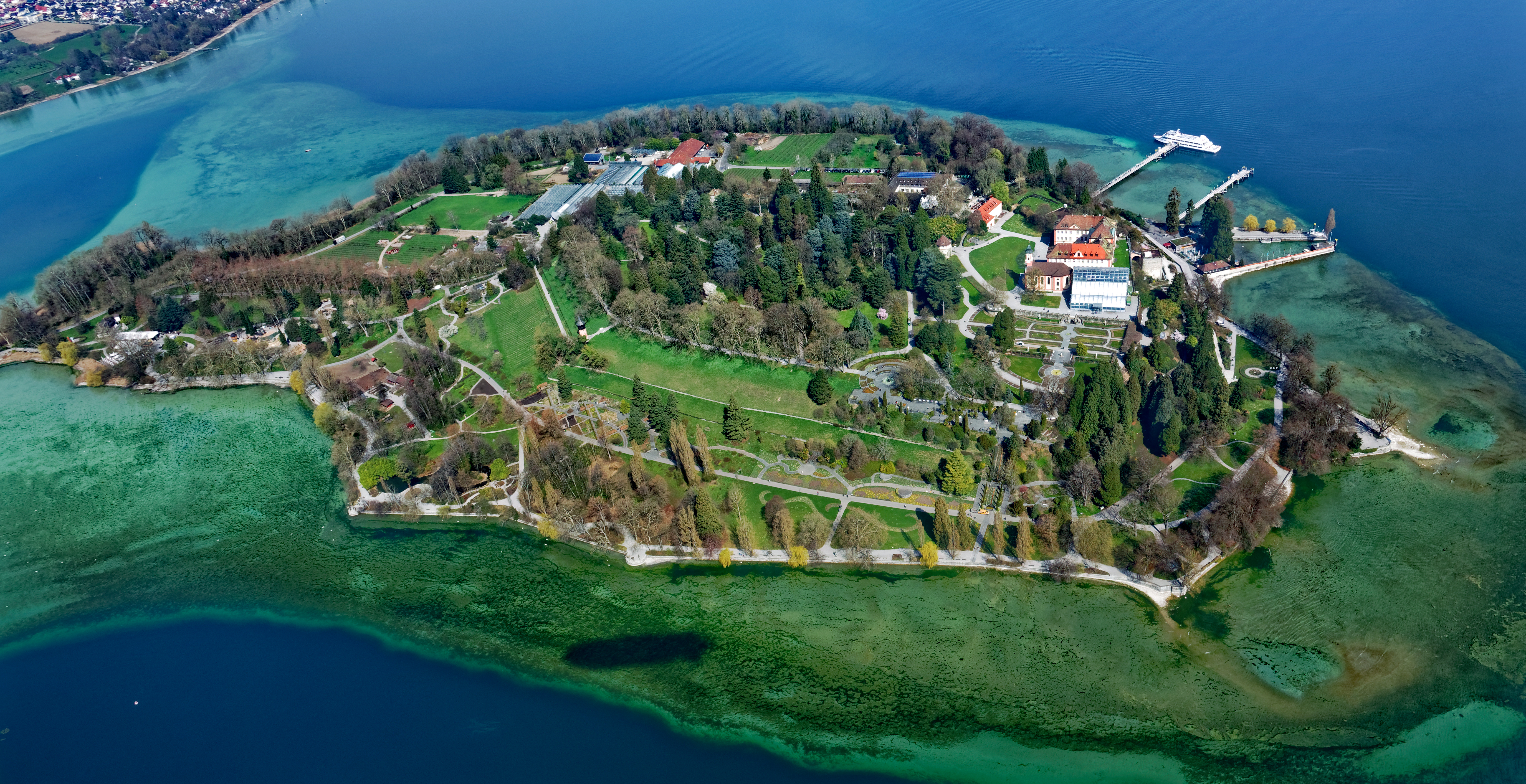 Island of Mainau, Lake Constance, photographed from Zeppelin.